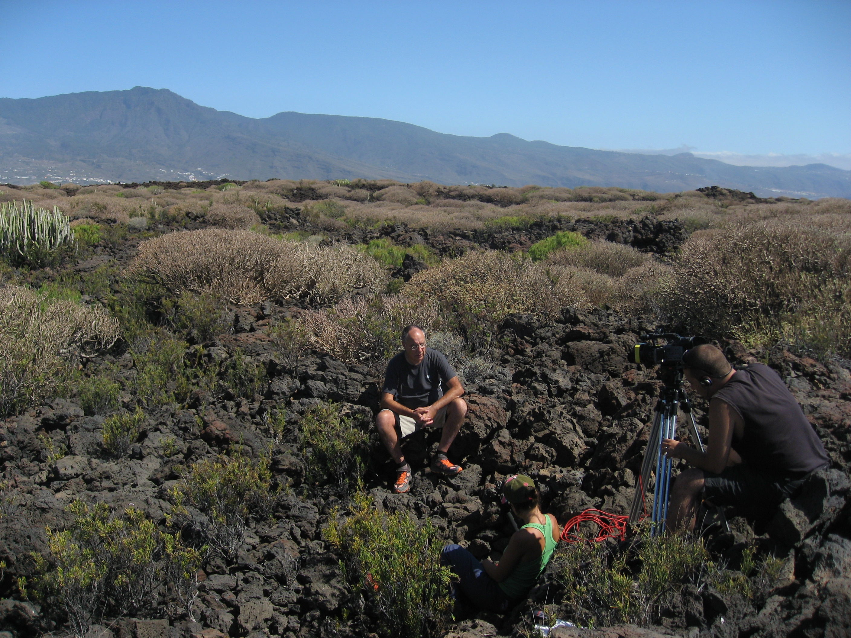 Shooting a documentary at Malpais de Güímar in 2007